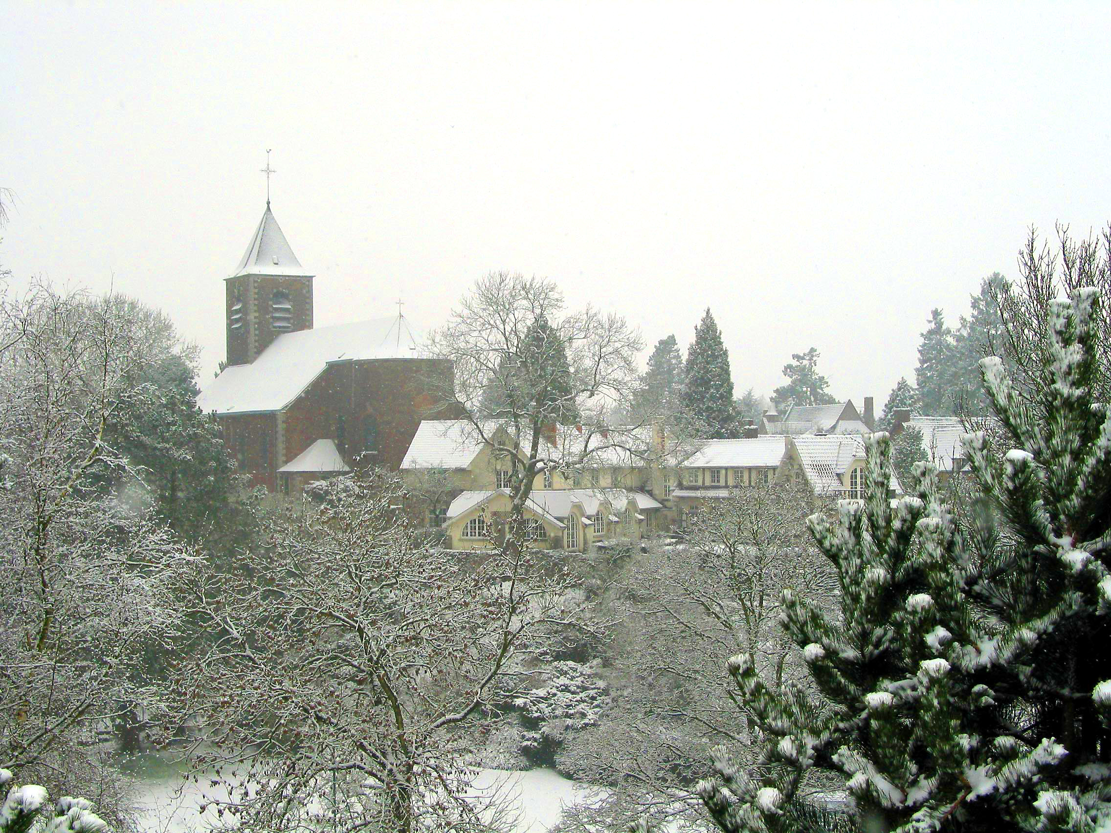 Casteau (Belgium), the neighbourhood of the Holly Virgin's church.